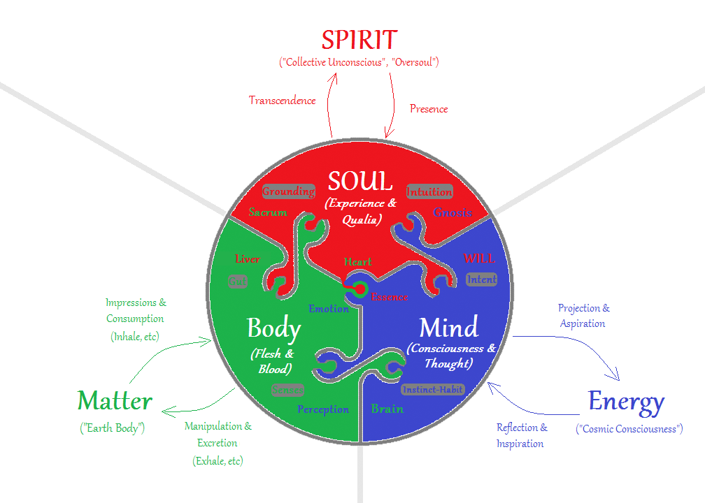 This is a close-up version of File:Body-Mind-SOUL--Matter-Energy-SPIRIT.png